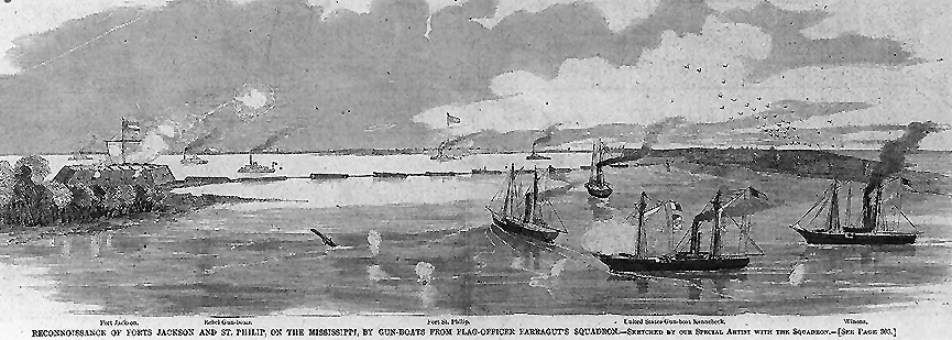 Line engraving entitled "Reconnaissance of Forts Jackson and St. Philip, on the Mississippi, by Gun-boats from Flag-officer Farragut's Squadron"